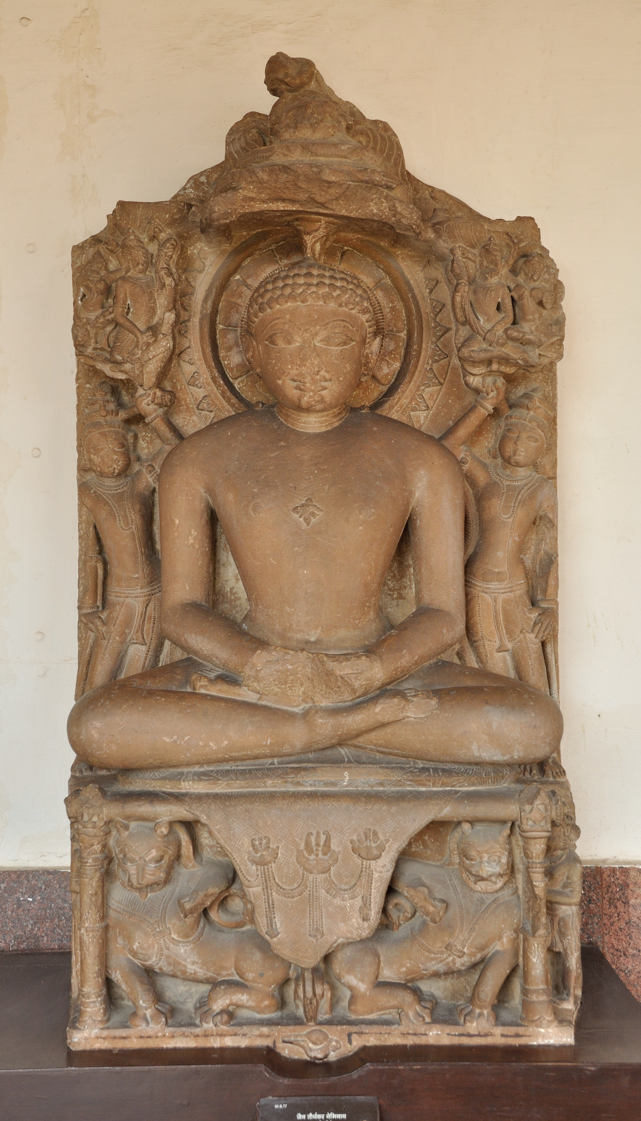 This artefact resides at the Government Museum, (hi: Rashtriya Sangrahalaya) formerly The Curzon Museum of Archaeology, Museum Road or Murari Lal Rajpal road, Dampier Nagar, Mathura, Uttar Pradesh, India. This museum is administrating by the State Government of Uttar Pradesh of India.